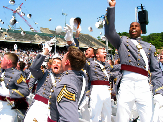 West Point graduates of the class of 2002 make the traditional hat toss at their graduation, symbolizing transition from cadet to military officer